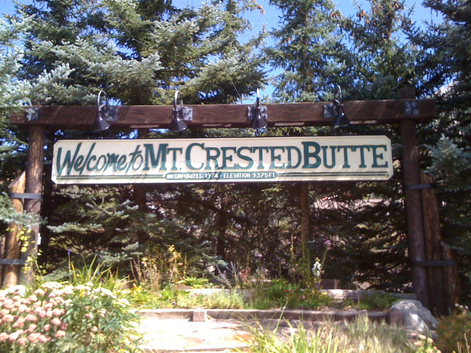 Photo of welcome sign at Mt. Crested Butte